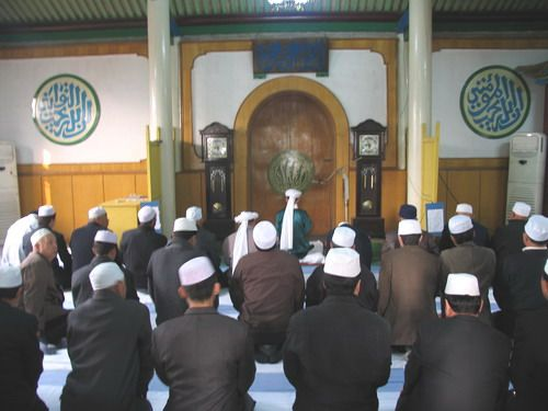 Picture of Hui people praying in mosque